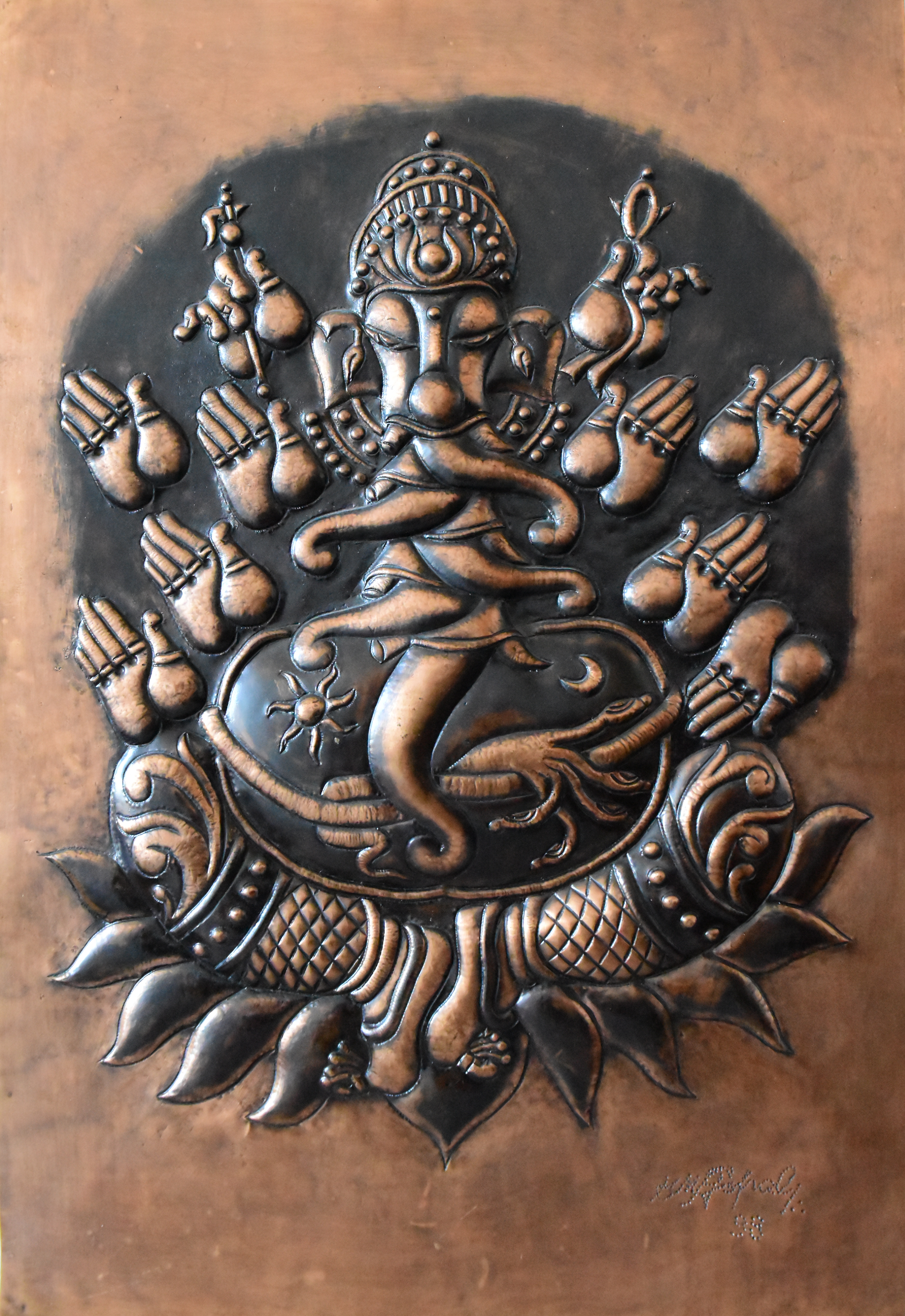 India's eminent artist and Sculptor K.M.Gopal is a prodigy of Madras School of Arts and Crafts (now Government College of Fine Arts Chennai). His watercolour and metal relief works are widely exhibited across the world, including many private and public collections. This Ganesha metal relief is one of the numerous Ganesha in contemporary form created by India's eminent artist K.M.Gopal. This Ganesha has many tantric symbols which relates to yoga principles in pure abstract form.